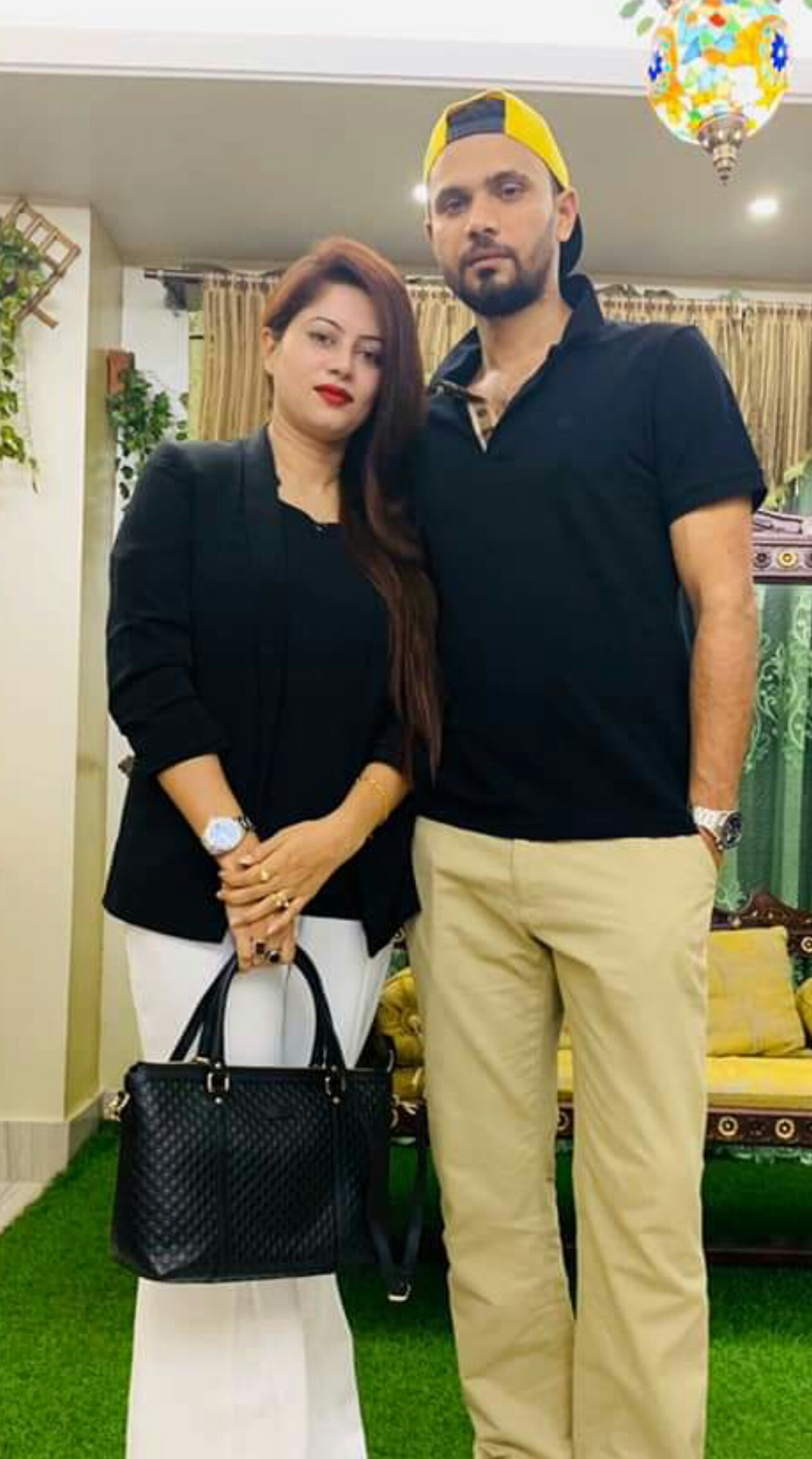 Mashrafe Mortaza's family